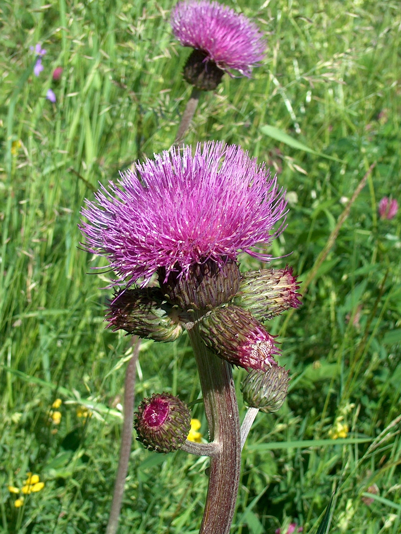 Cirsium helenioides, Melancholy Thistle - Kerava, Finland